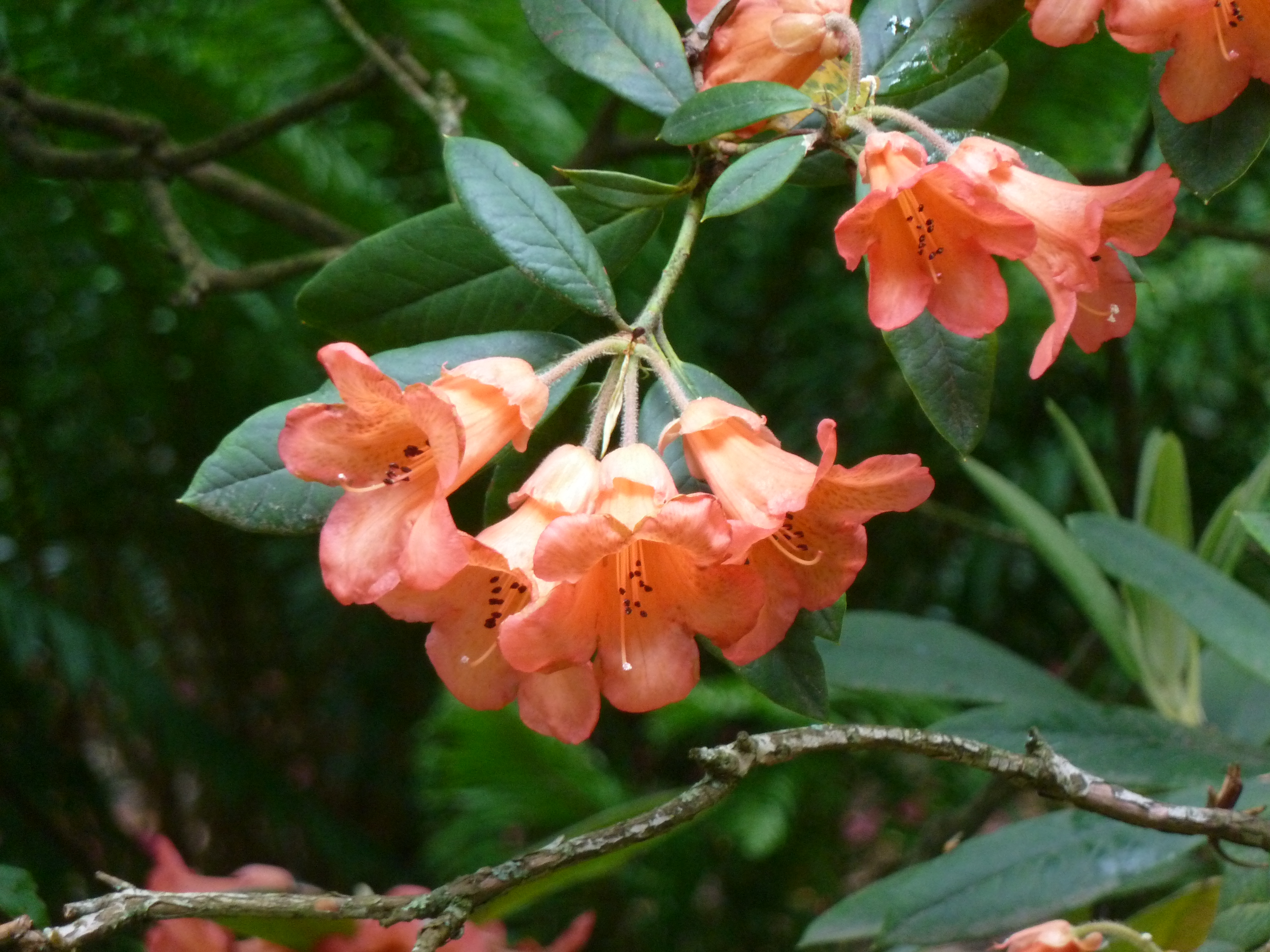 This looks like Rhododendron 'Fabia', according to the Park Board's write-up on what should be blooming now. Another rhodo with a nice calyx.